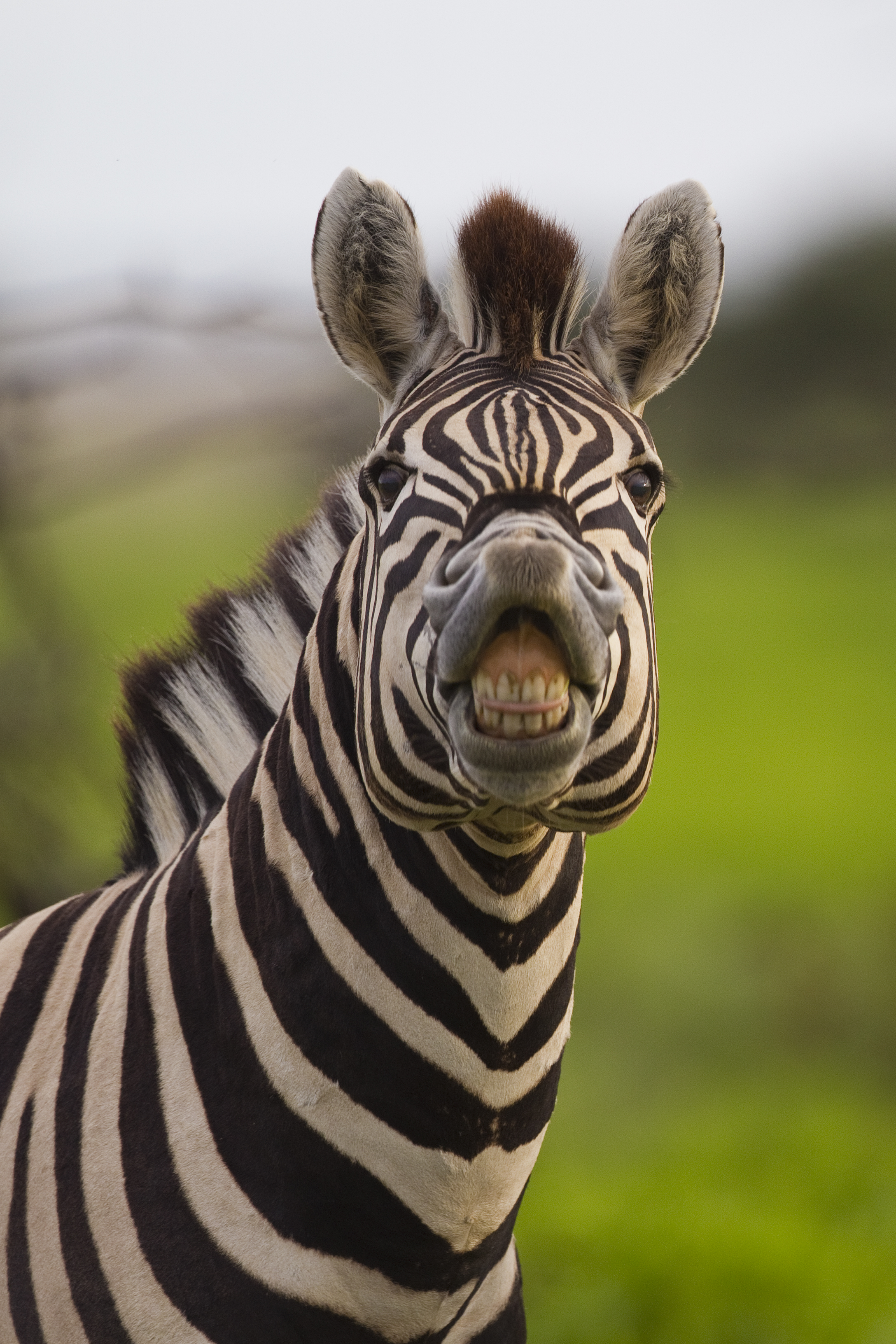 Plains zebra flehmen in Etosha National Park, Namibia